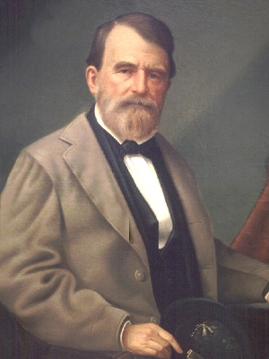 19th century painting of Louisiana Governor John McEnery